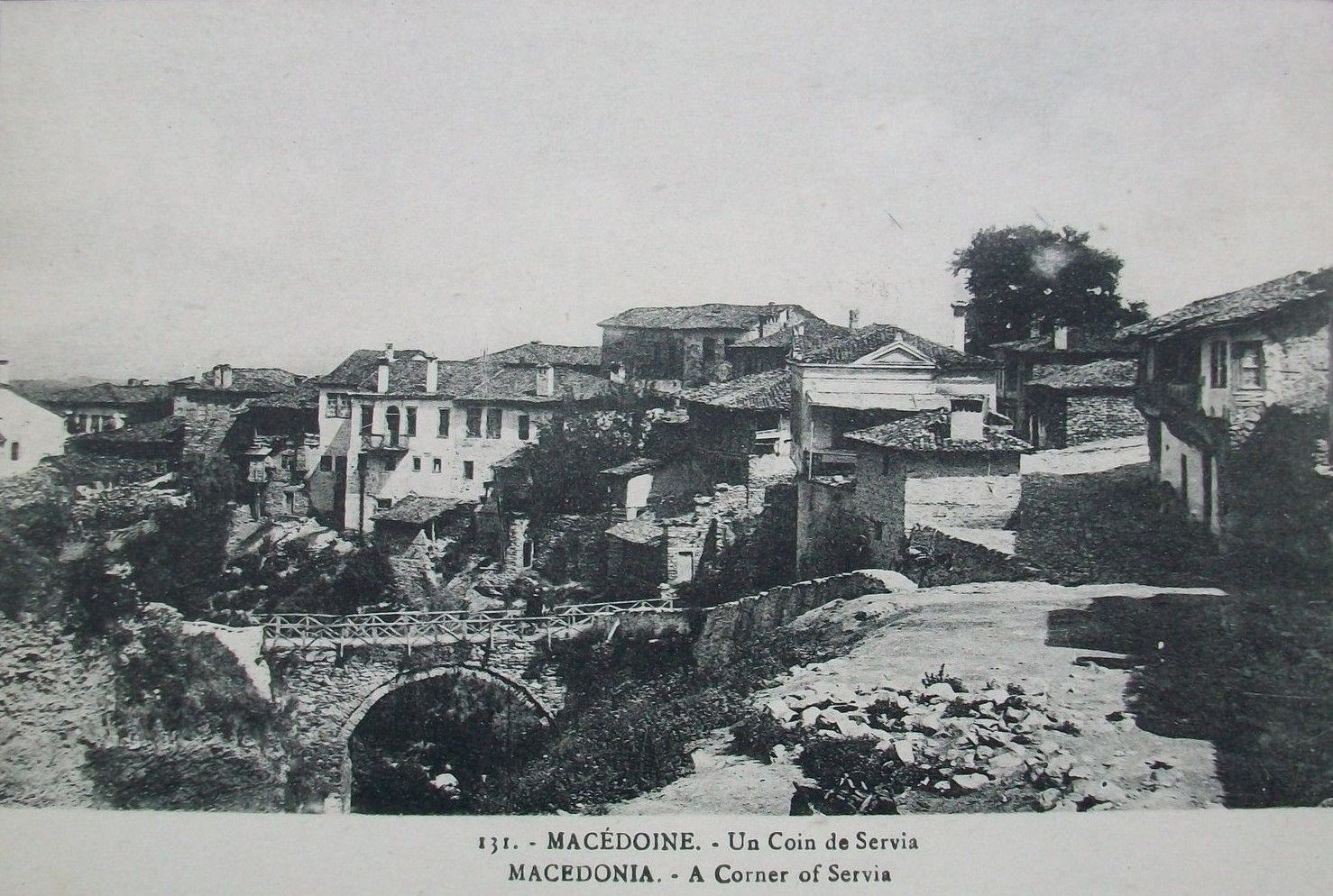 Servia in WWI